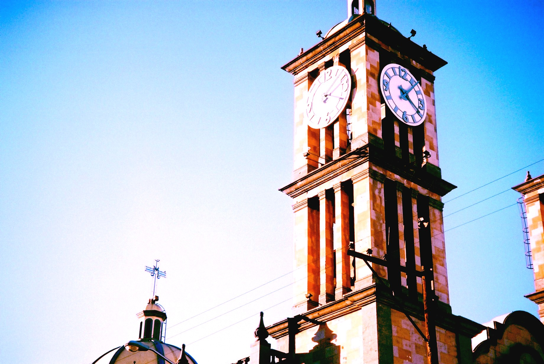 Church in Tijuana